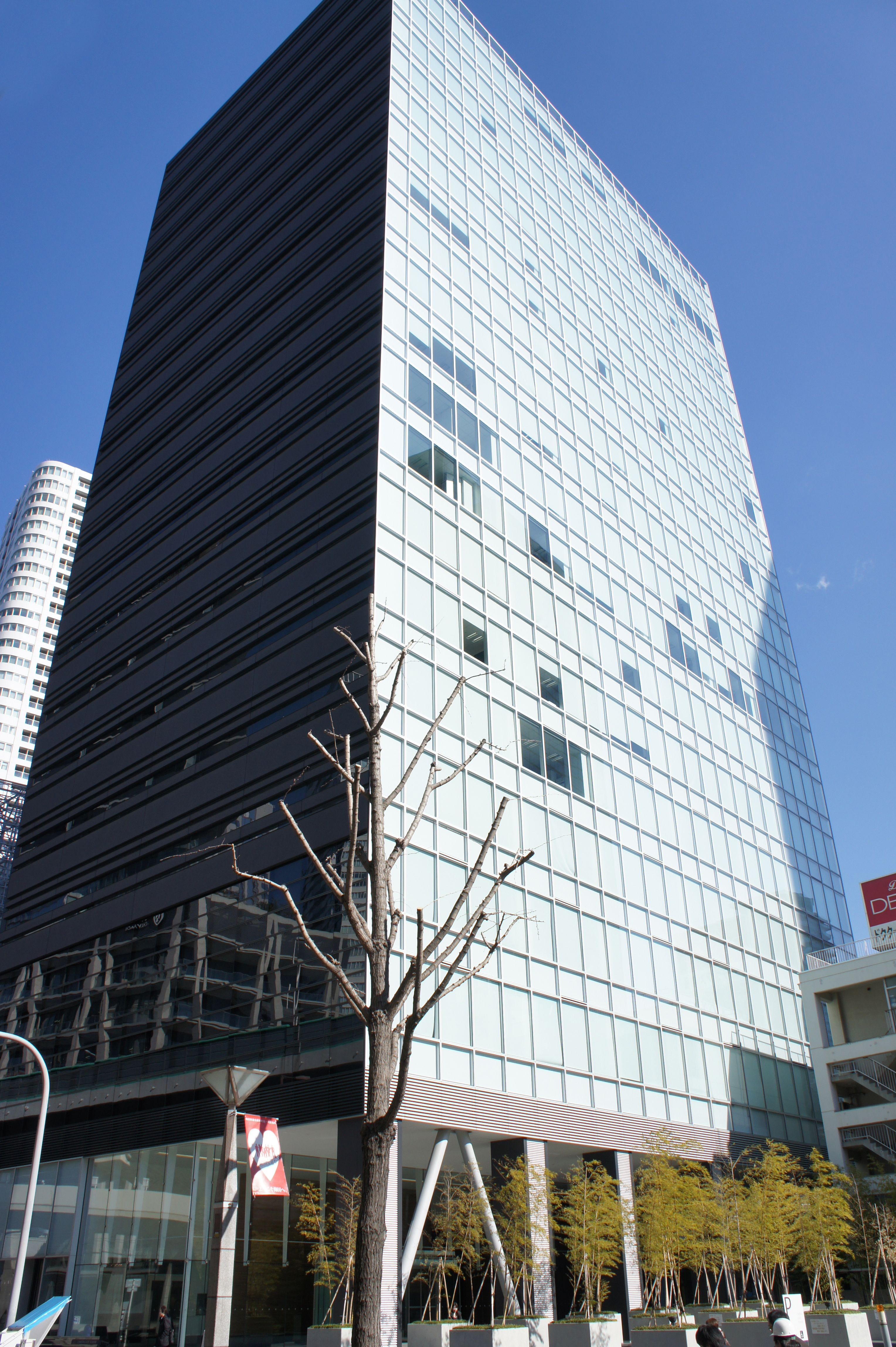 UMEDA GATE TOWER, 1-9 Tsurunocho Kita-ku Osaka-City Osaka Japan.